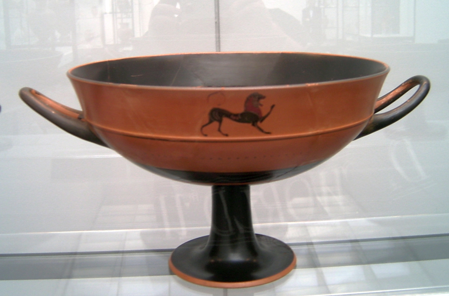 Little master lip cup by potter Tleson with Inscription Tleson, son of Nearchos, made it, ca. 540 BC, Staatliche Antikensammlung in München